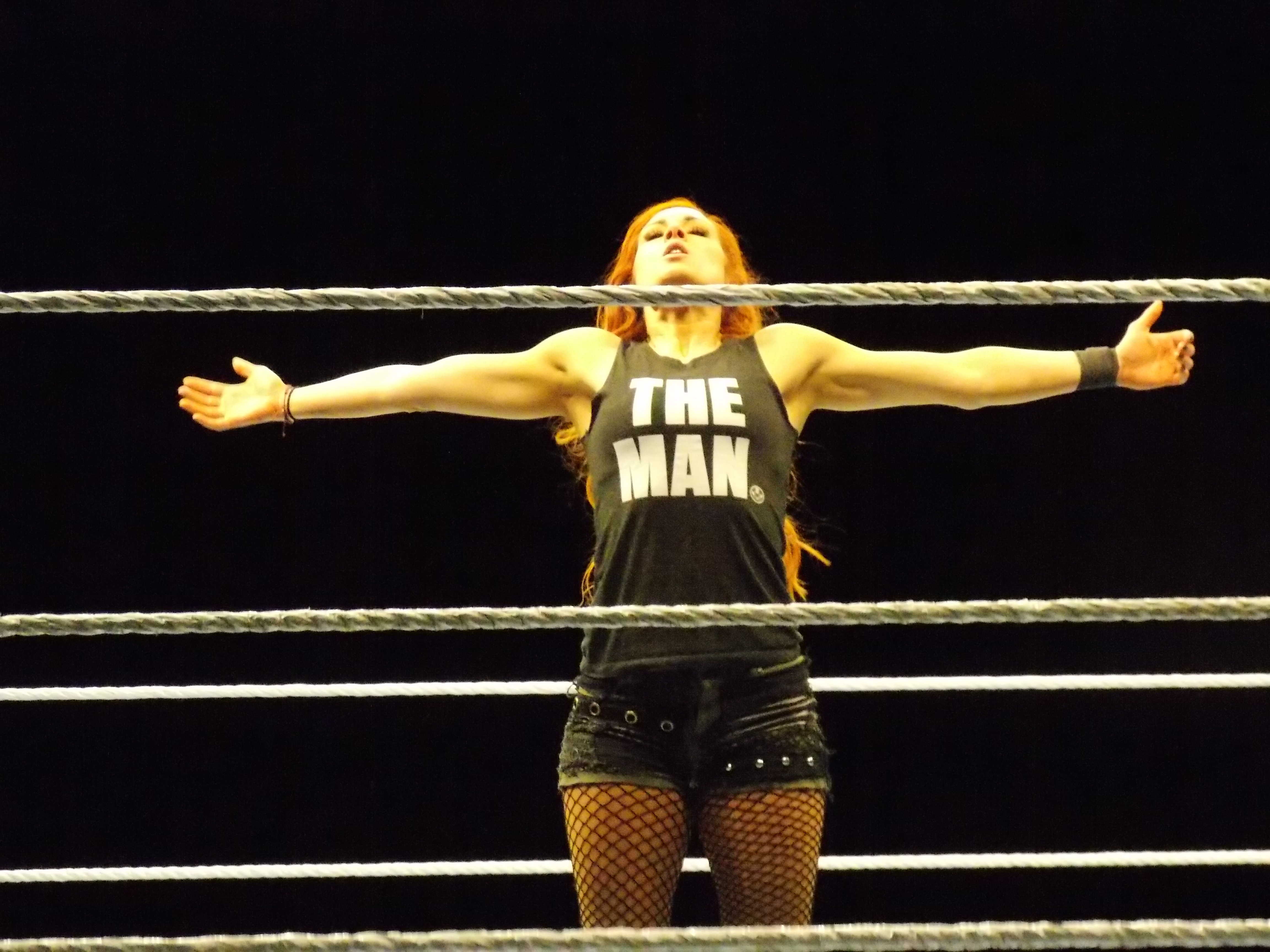 Becky Lynch at a WWE Live Event House Show in Omaha, Nebraska, USA on Sunday, January 20, 2019